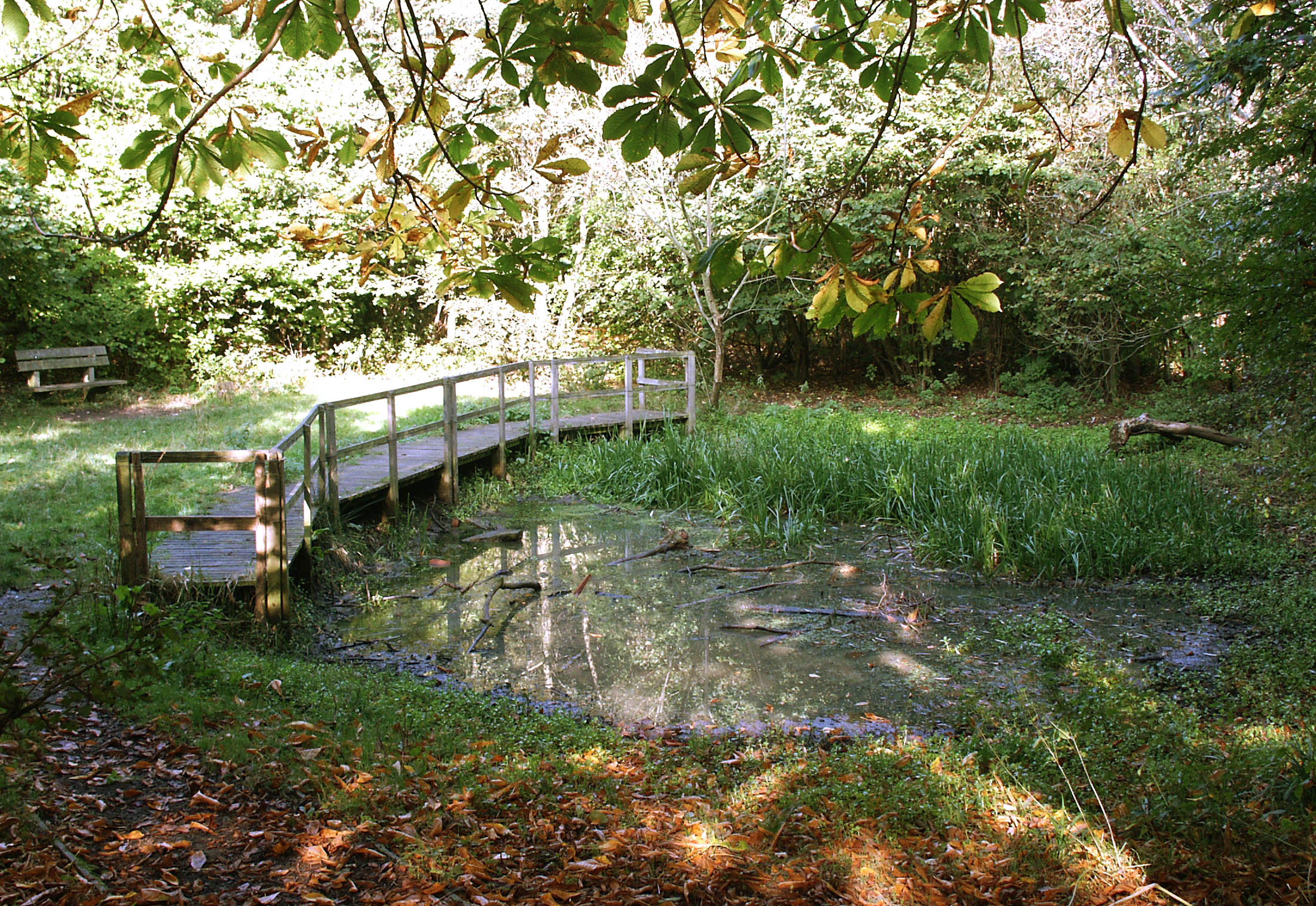 A small pond in the middle of Highfield Country Park, Levenshulme, Manchester, United Kingdom.